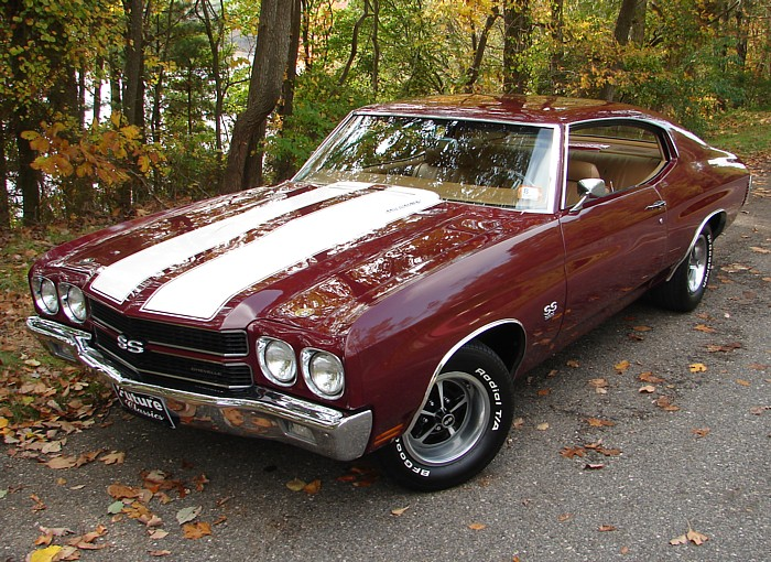 70 Chevelle SS396 Hardtop Coupe